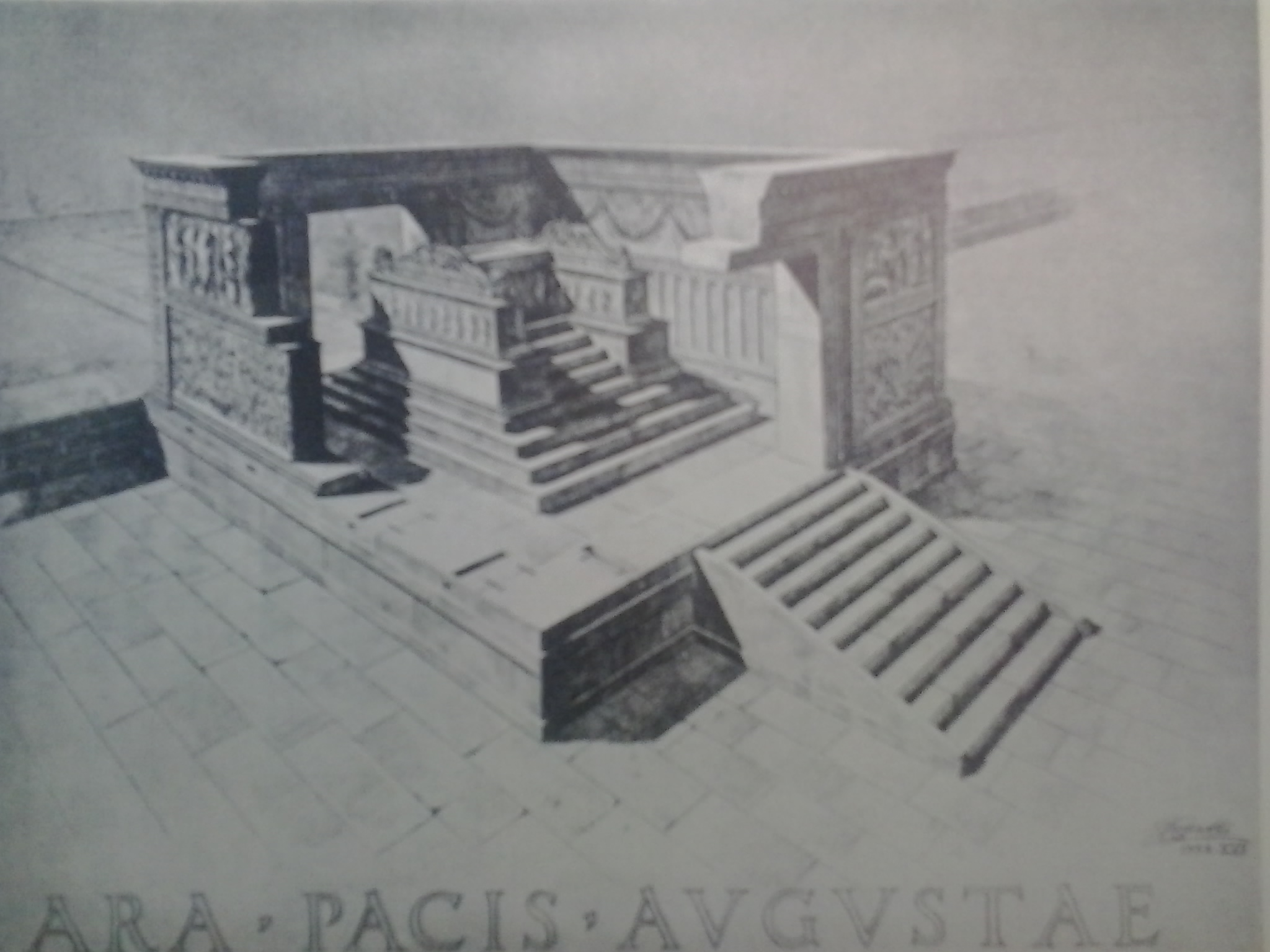 Ara Pacis Reconstruction